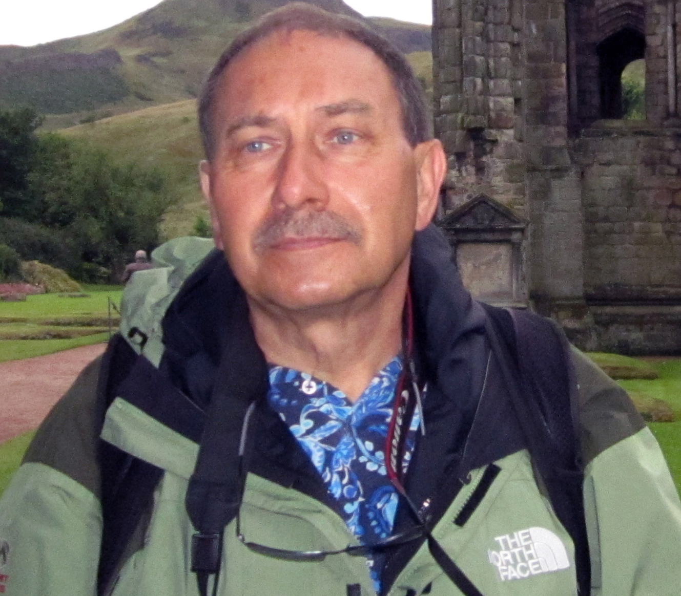 Tad Patzek's photo in Ireland, July 2018